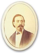 Portrait of the composer Oreste Síndici